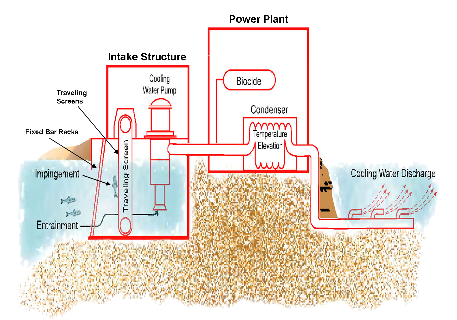 Diagram of an industrial cooling water intake structure with traveling fish screens. Image cropped and labels edited for clarity.